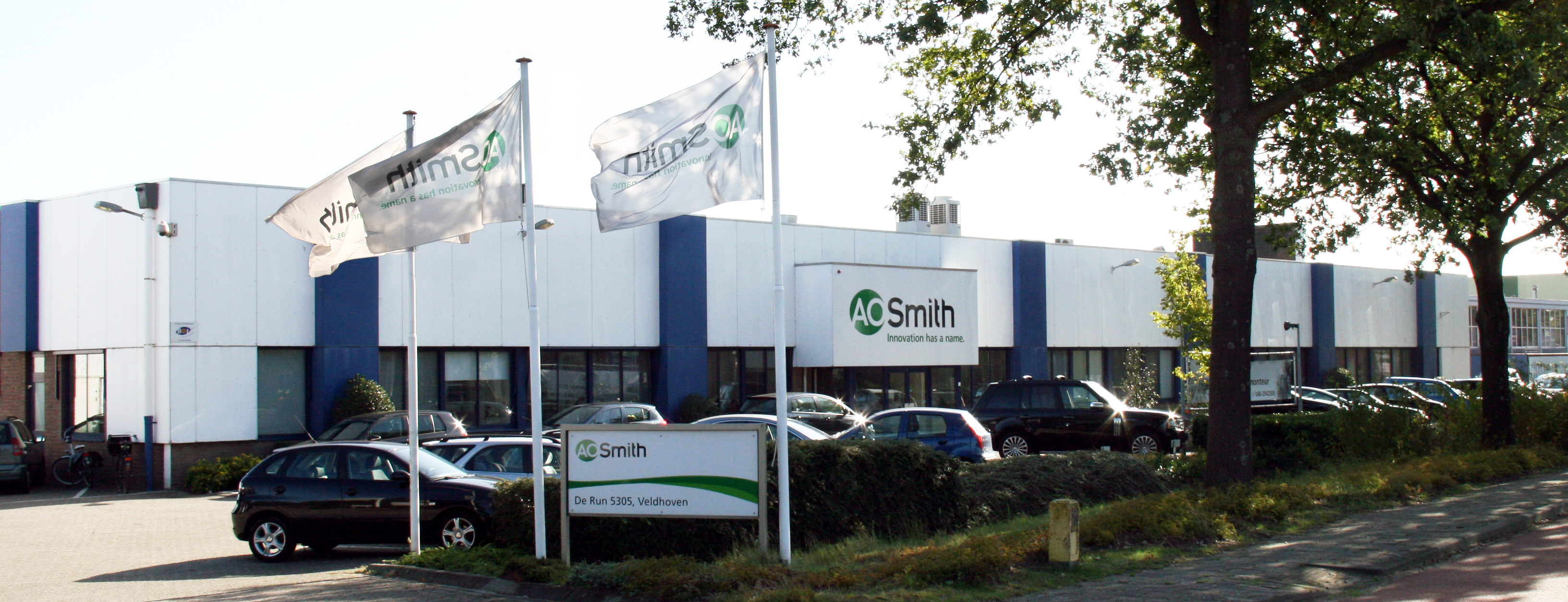 Business premises of A.O. Smith Water Products Company B.V. at Veldhoven, the Netherlands.